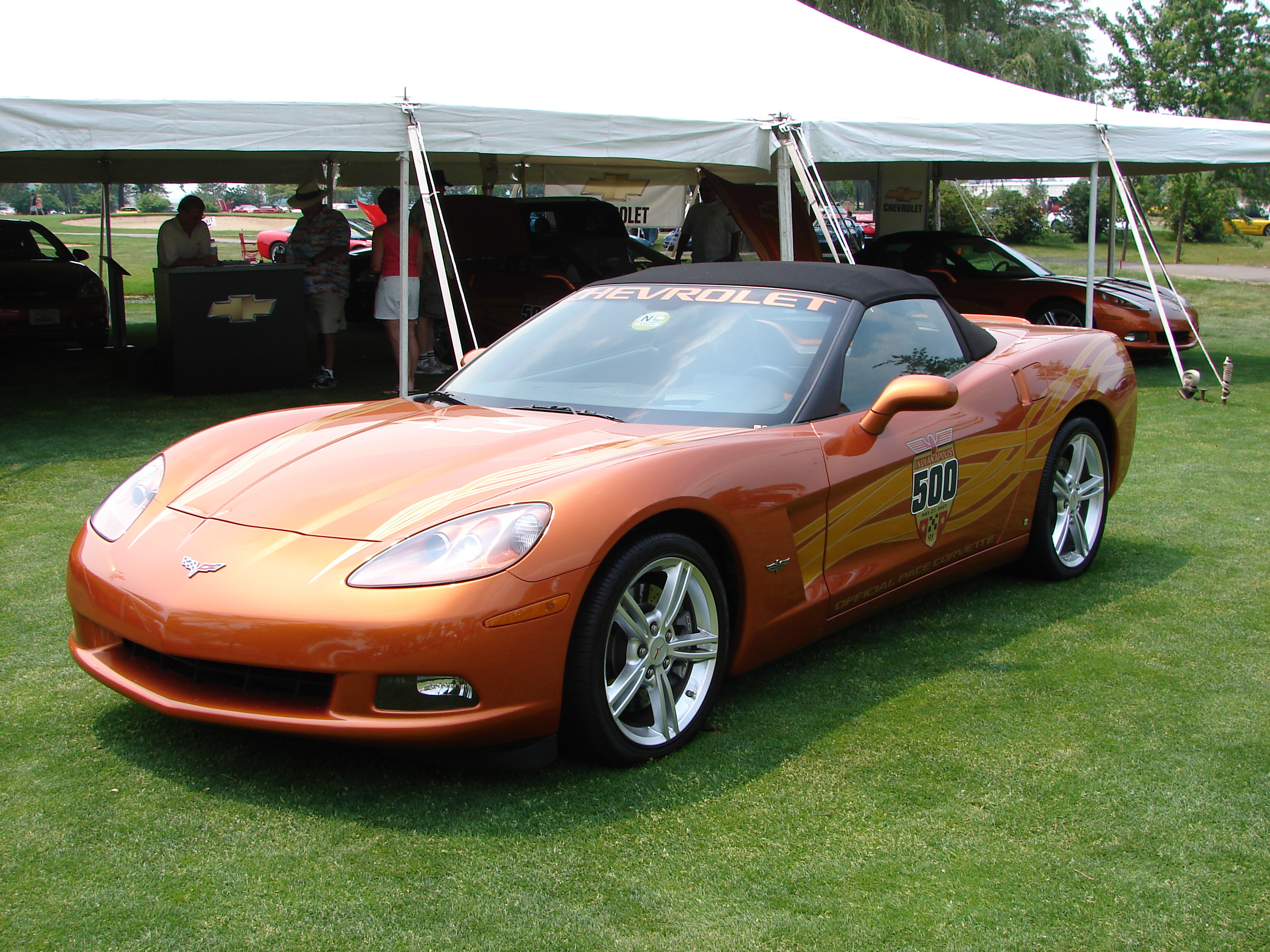 This is one of the Indy 500 Pace Cars.